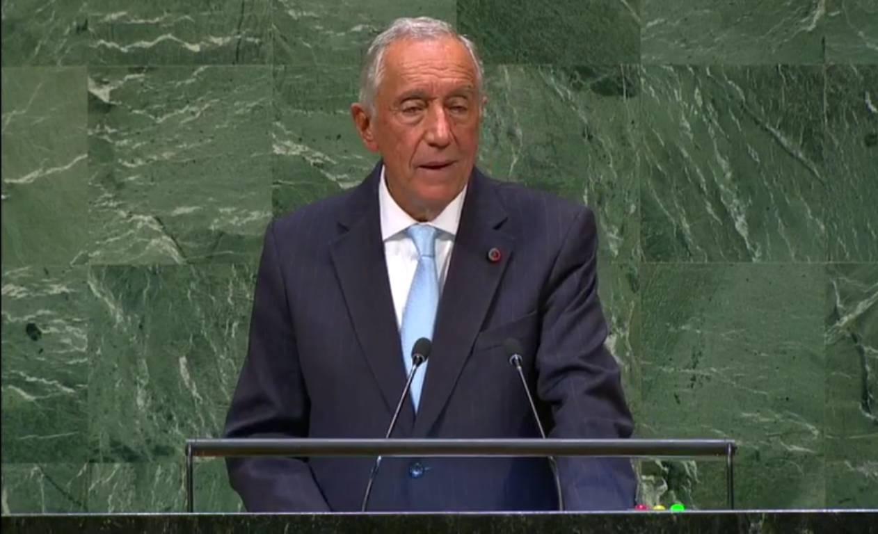 President of the Portuguese Republic Marcelo Rebelo de Sousa addresses the General Debate of the seventy-third session of the United Nations General Assembly, on 26 September 2018.